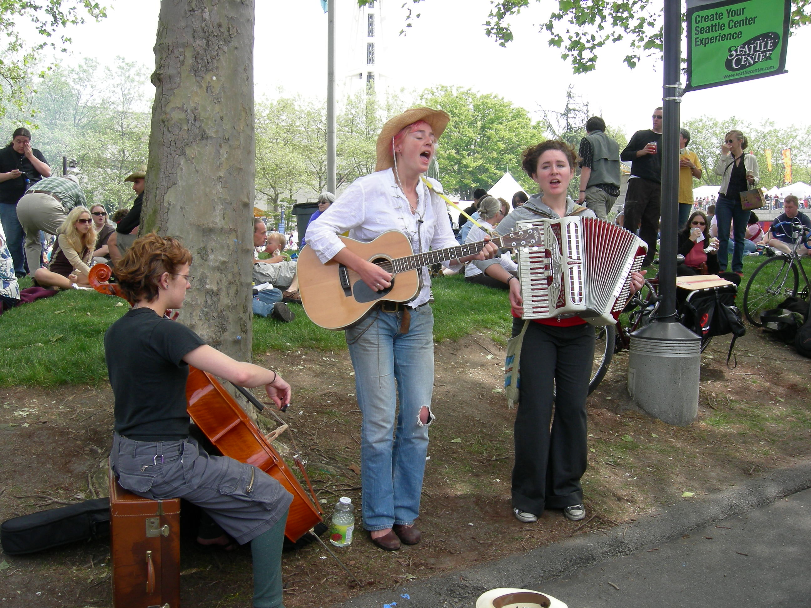 Buskers, Northwest Folklife Festival, Seattle Center, 2007.